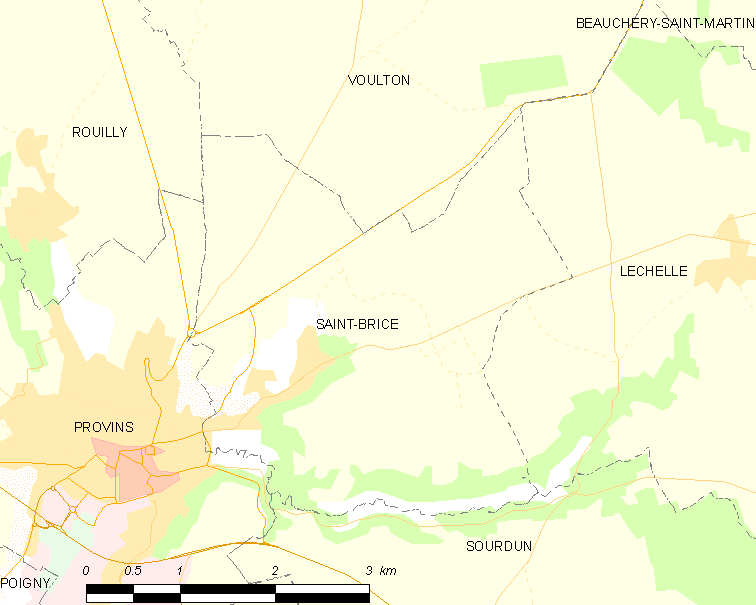 Map of French municipality Saint-Brice